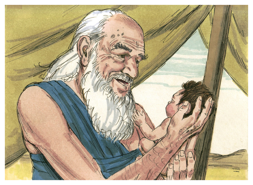 Biblical illustration of Book of Genesis Chapter 21